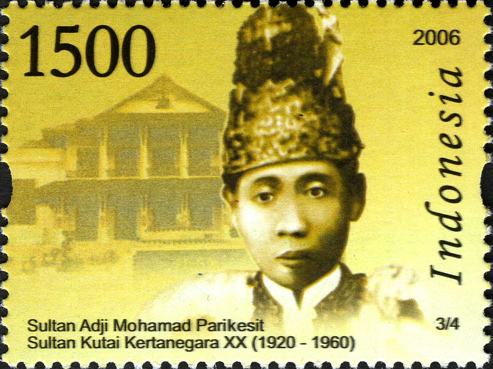 Stamps of Indonesia